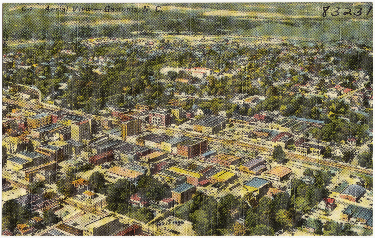 File name: 06_10_016003 Title: Aerial view -- Gastonia, N. C. Created/Published: Pub. by The Asheville Post Card Co., Asheville, N. C. Date issued: 1930 - 1945 (approximate) Physical description: 1 print (postcard) : linen texture, color ; 3 1/2 x 5 1/2 in. Genre: Postcards Subjects: Cities & towns Notes: Collection: The Tichnor Brothers Collection Location: Boston Public Library, Print Department Rights: No known restrictions